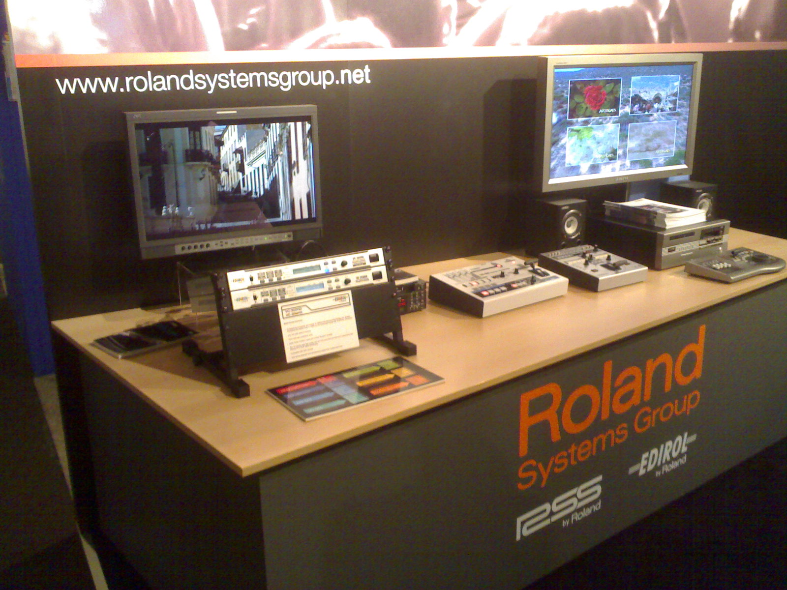 Edirol booth @ IBC 2007 Edirol VC-300HD / VC-200HD Bi-directional Multi-Format Converter with built in Audio Delay Edirol LVS-400 Professional 4ch Video Mixer Edirol V-4 4ch Video Mixer with Effects Edirol DV-7 DL Series Digital Video Workstation